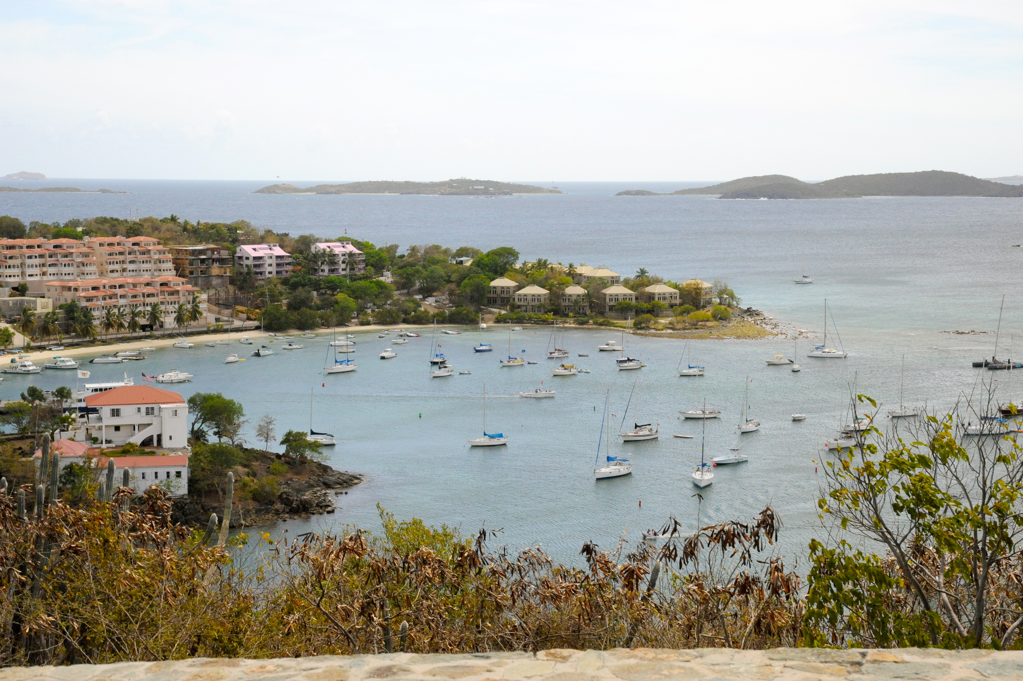 Cruz Bay — at St. John island, United States Virgin Islands.